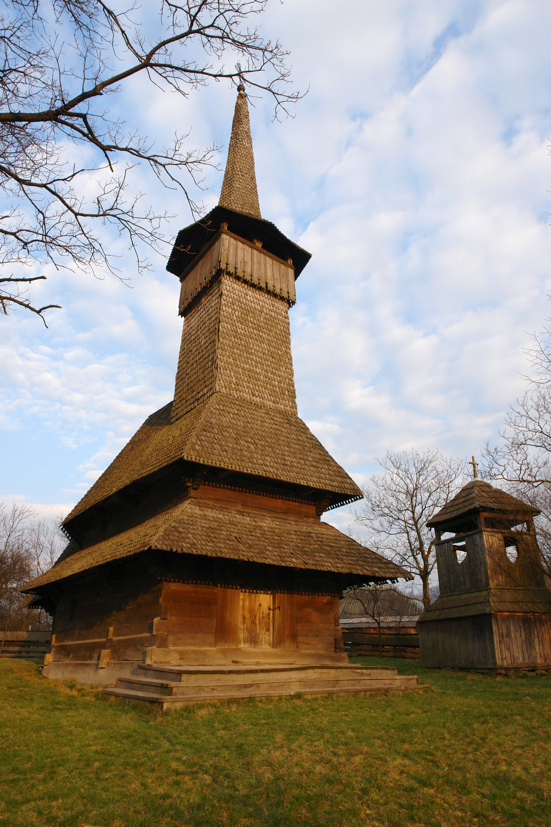 Church in Novoselitsia